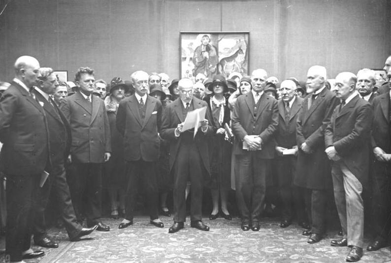 Black and White in the Academy of Arts. Prof.. Max Liebermann, the noted German painter, this morning opened the Exposition "Black and White" and the exhibition of sculpture in the Berlin Academy of Arts. Photo shows.: Prof. Max Liebermann holding the opening speech at the exposition (with manuscript in hand). At his right the French ambassador Pierre de Margerie.